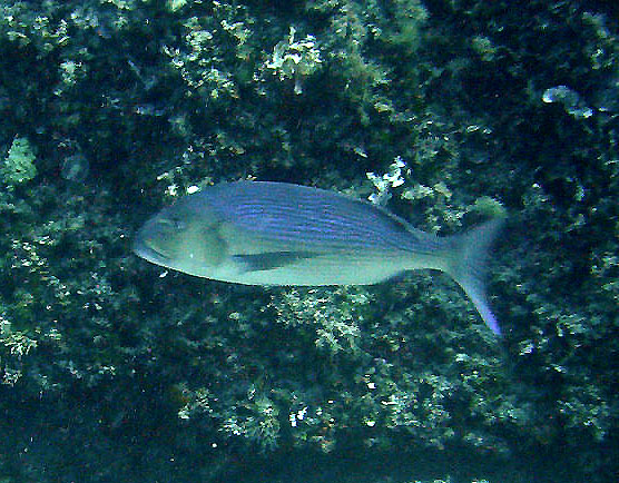 Common dentex (Dentex dentex) from Portofino, Italy